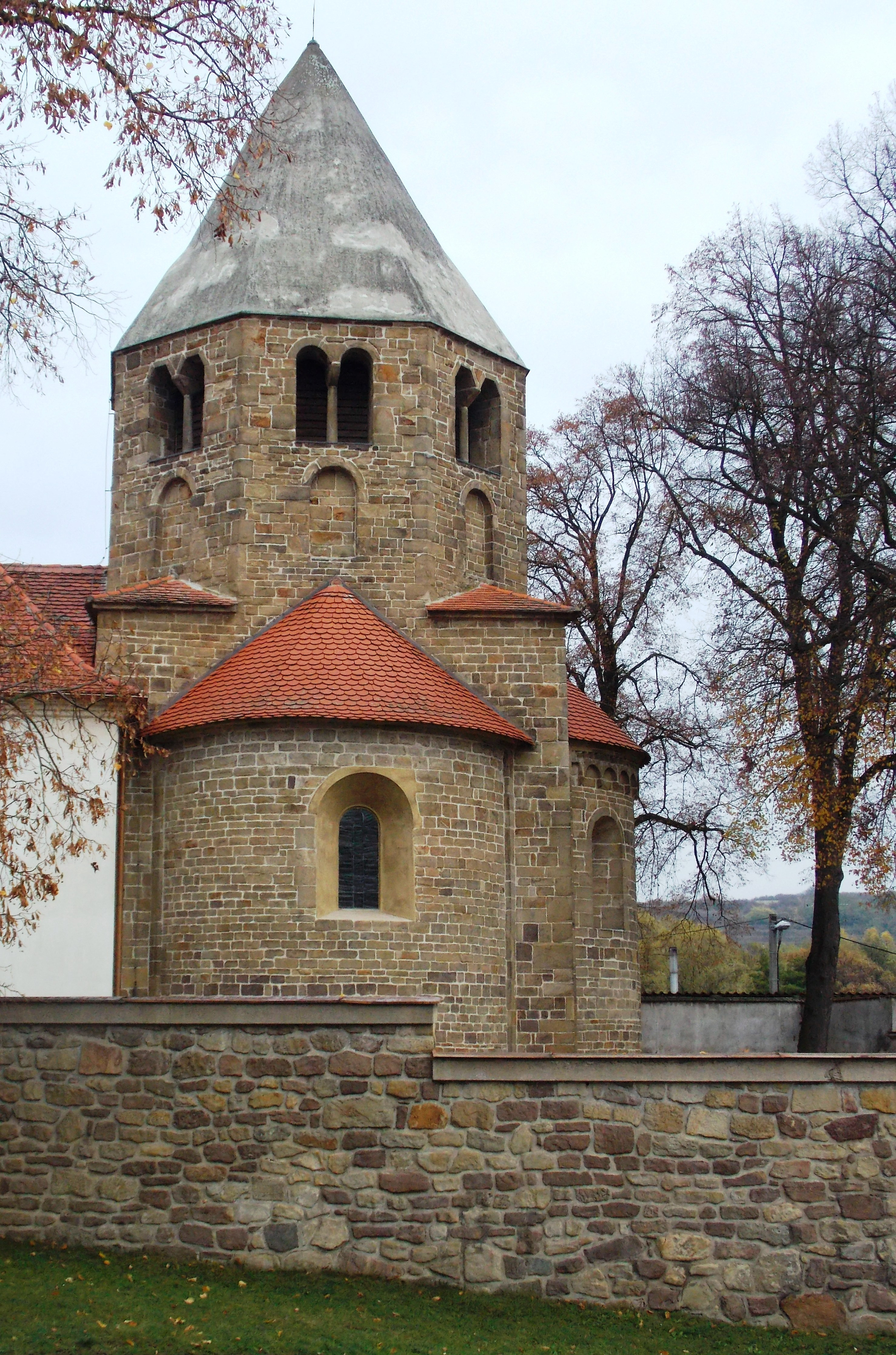 Romanesque temple St. Peter and Paul, ducal courtyard (Conrad Otta, duke of Moravia in Znojmo) Řeznovice, Moravia 1140